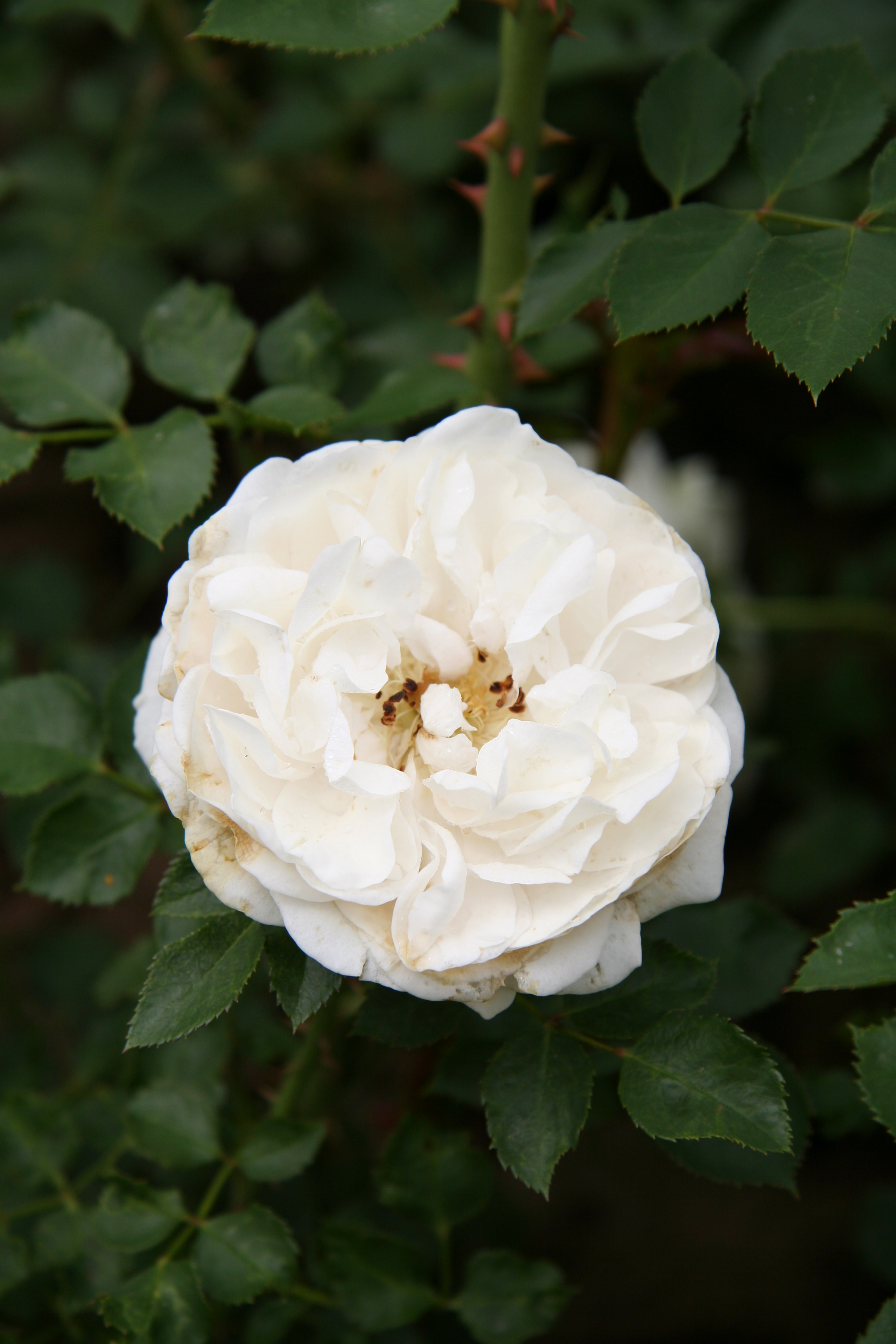 Susan Renaissance rose - Bagatelle Rose Garden (Paris, France).